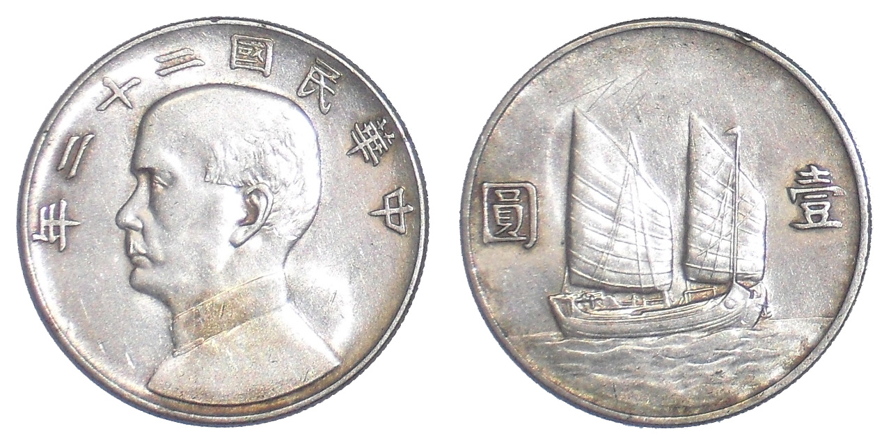 China-1Yuan-1933